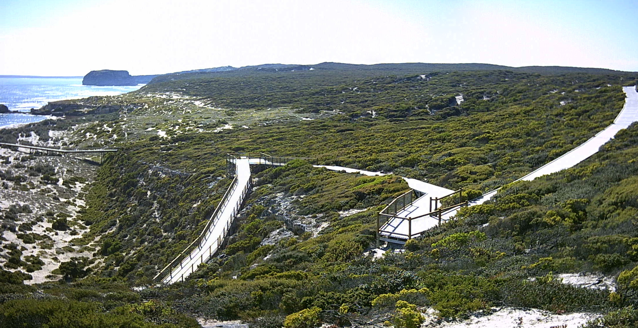 Seal Bay Conservation Park from path to eastern lookout